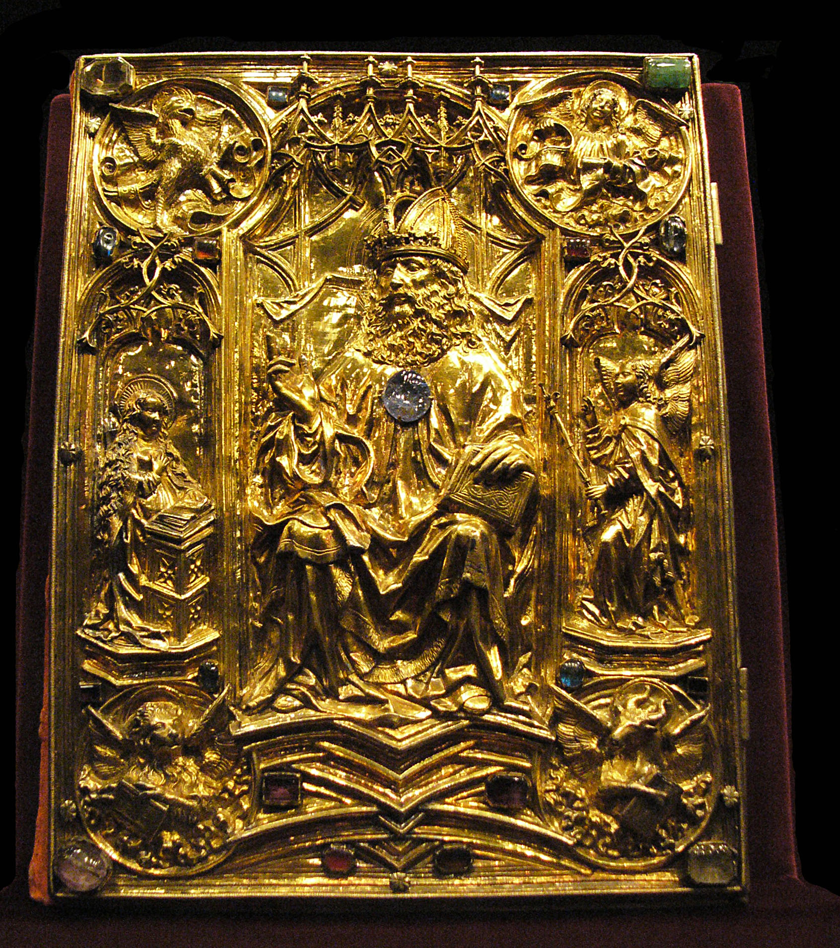 Book cover of the Coronation Evangeliar, part of the Imperial Regalia of the Holy Roman Empire (HRE).